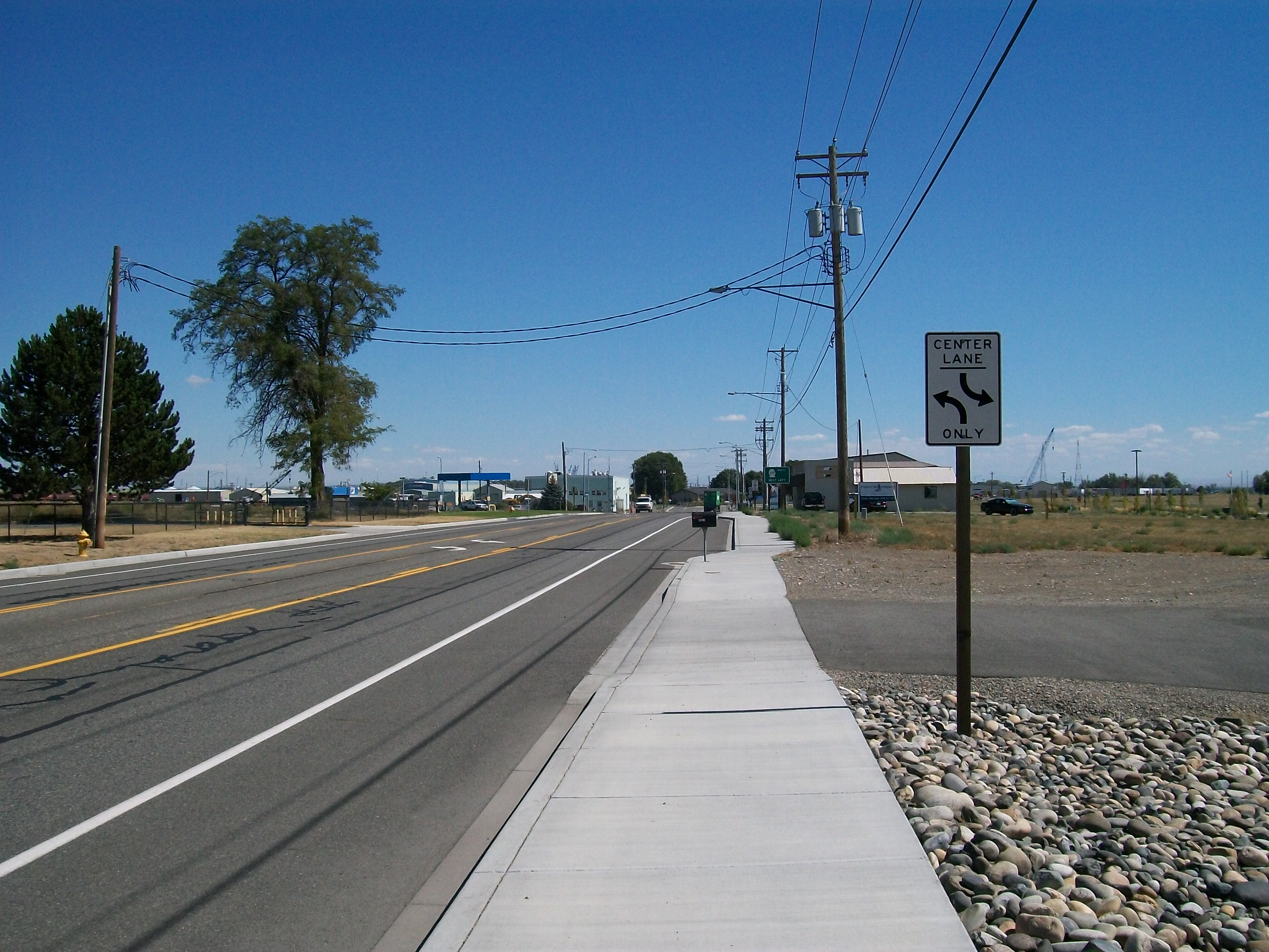 An interstion in Pasco, Washington.